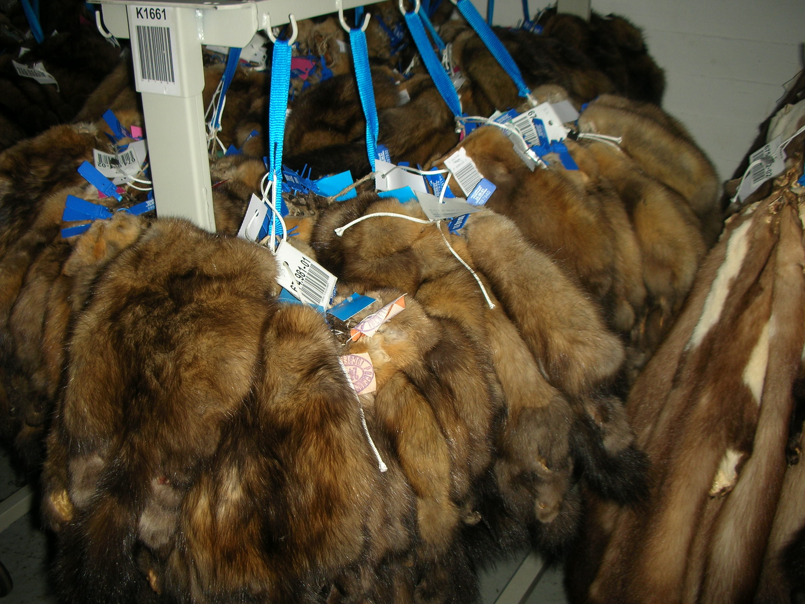 Raw sable pelts (right stone marten) in the warehouse of the auction house Kopenhagen Fur.